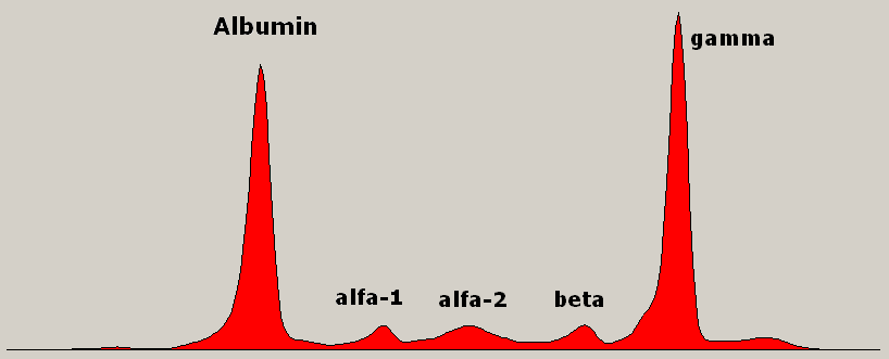 Diagram of protein electrophoresis showing monoclonal gammopathy (paraprotein, M-peak) in a patient with multiple myeloma (Kahler's disease).